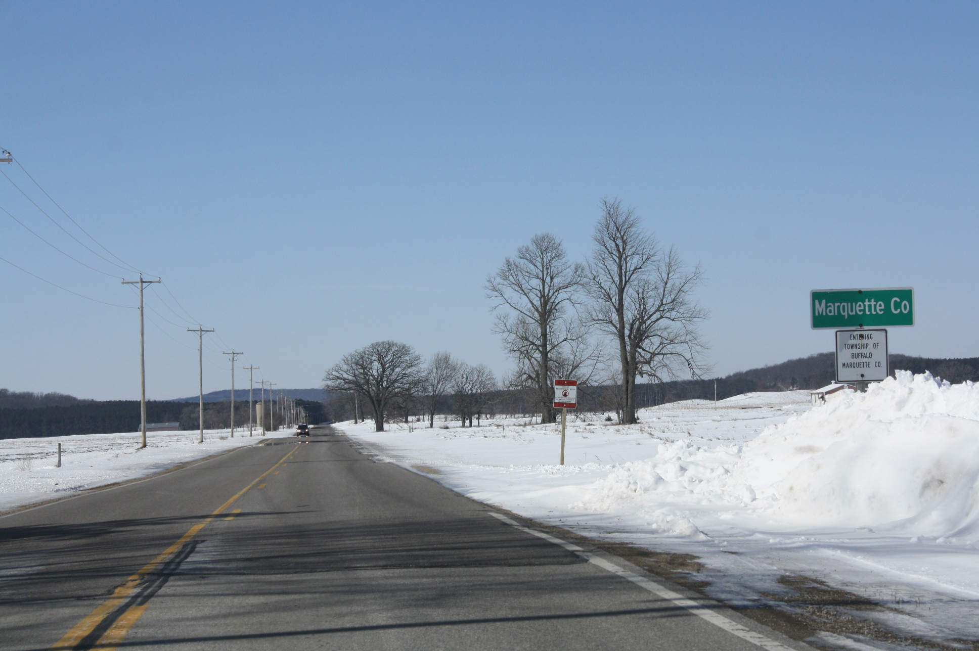 Looing west at the county welcome sign for Marquette County, Wisconsin on County B.